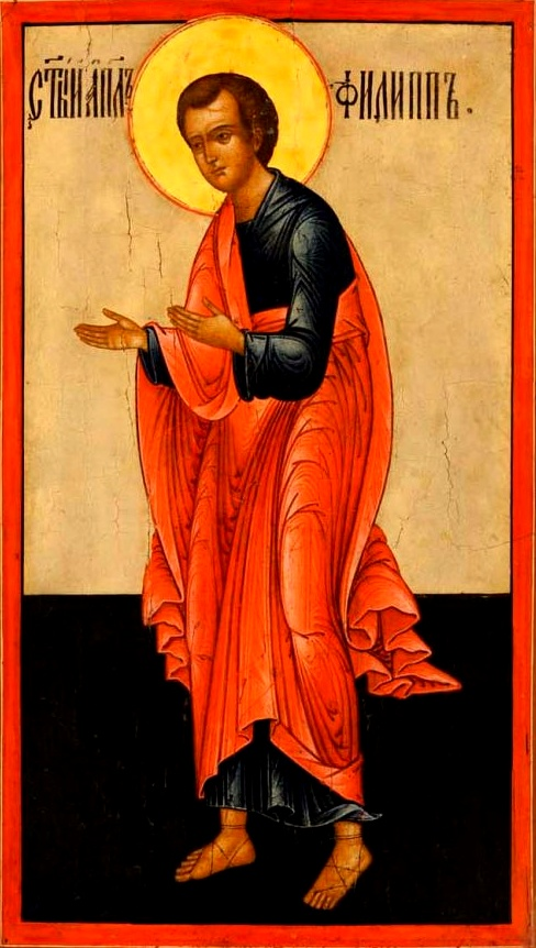 Philip the Apostle. Russian Orthodox icon. Central Russia. Icon from the triptych. Size 53,5 х 31 cm.